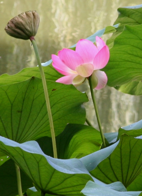 Nelumbo nucifera — Lotus; flower. Blooming in the 'Japanese Garden' of Lotusland — in Montecito, near Santa Barbara in southern California. The source of the estate's name "Lotusland" − given by its owner/designer Madame Ganna Walska (1887-1984).